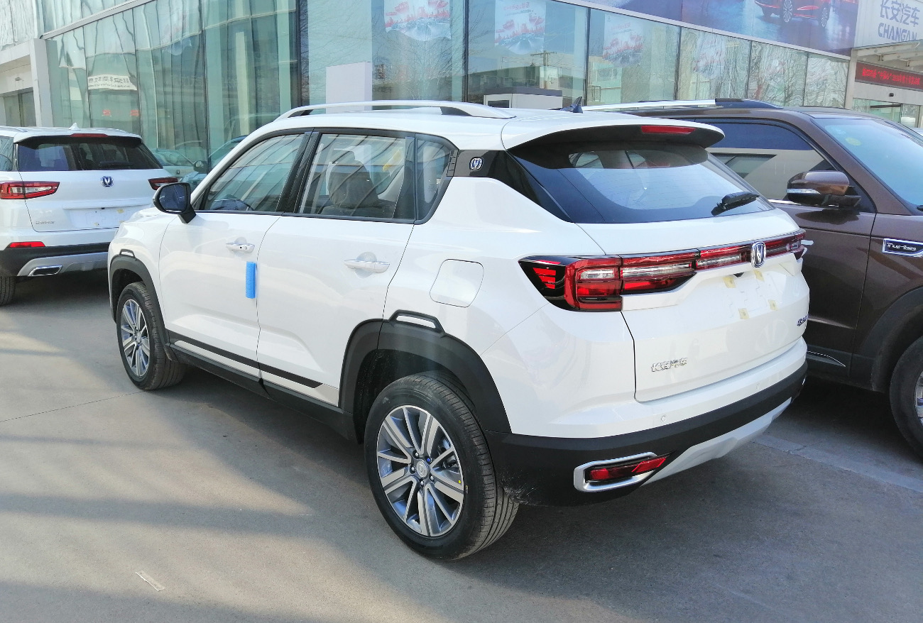 Chang'an CS35 Plus photographed in Hohhot, Inner Mongolia autonomous region, China.